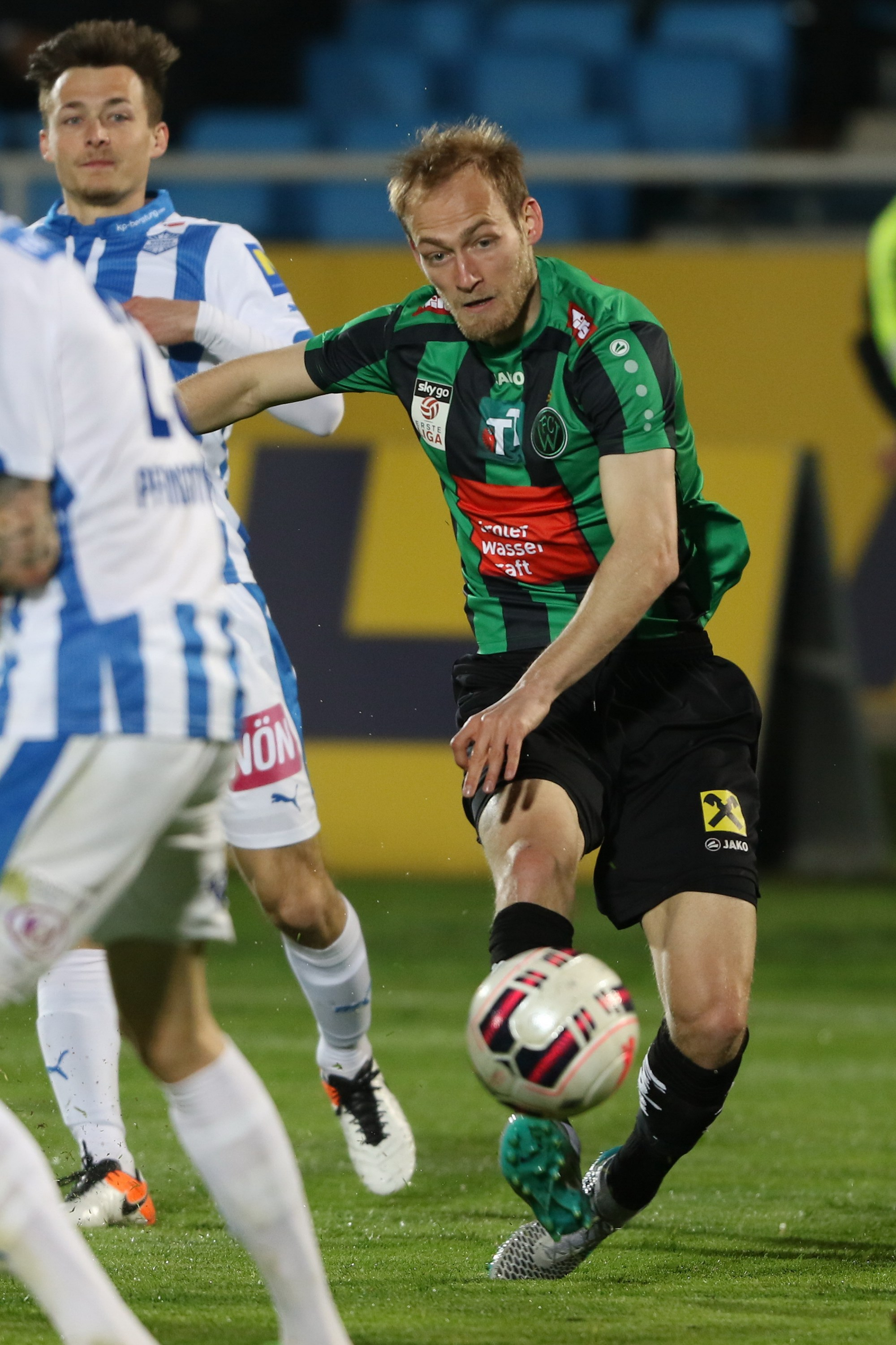 Match of the Erste Liga – SC Wiener Neustadt (blue/white shirts) vs. FC Wacker Innsbruck (green/black shirts) 0–2 (0–1) on 2016-04-11 in the Stadion in Wiener Neustadt – The photo shows Danijel Micic (right) and Mario Ebenhofer (behind).